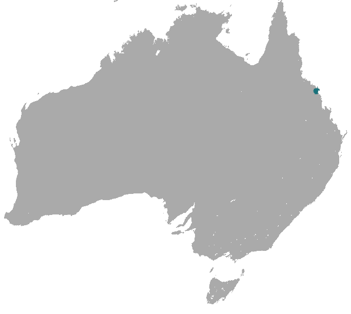 Proserpine Rock Wallaby (Petrogale persephone) range